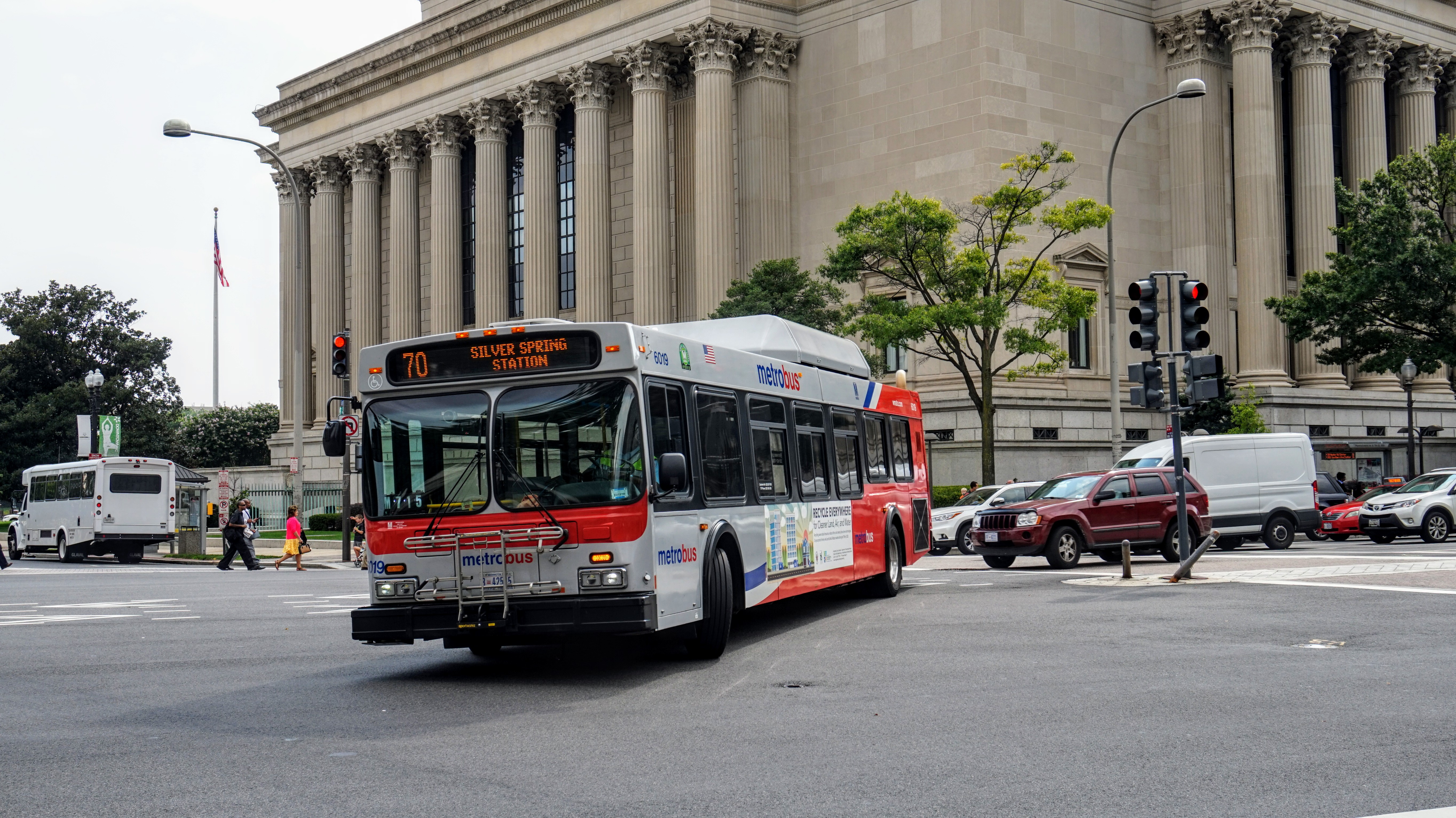 Archive Station